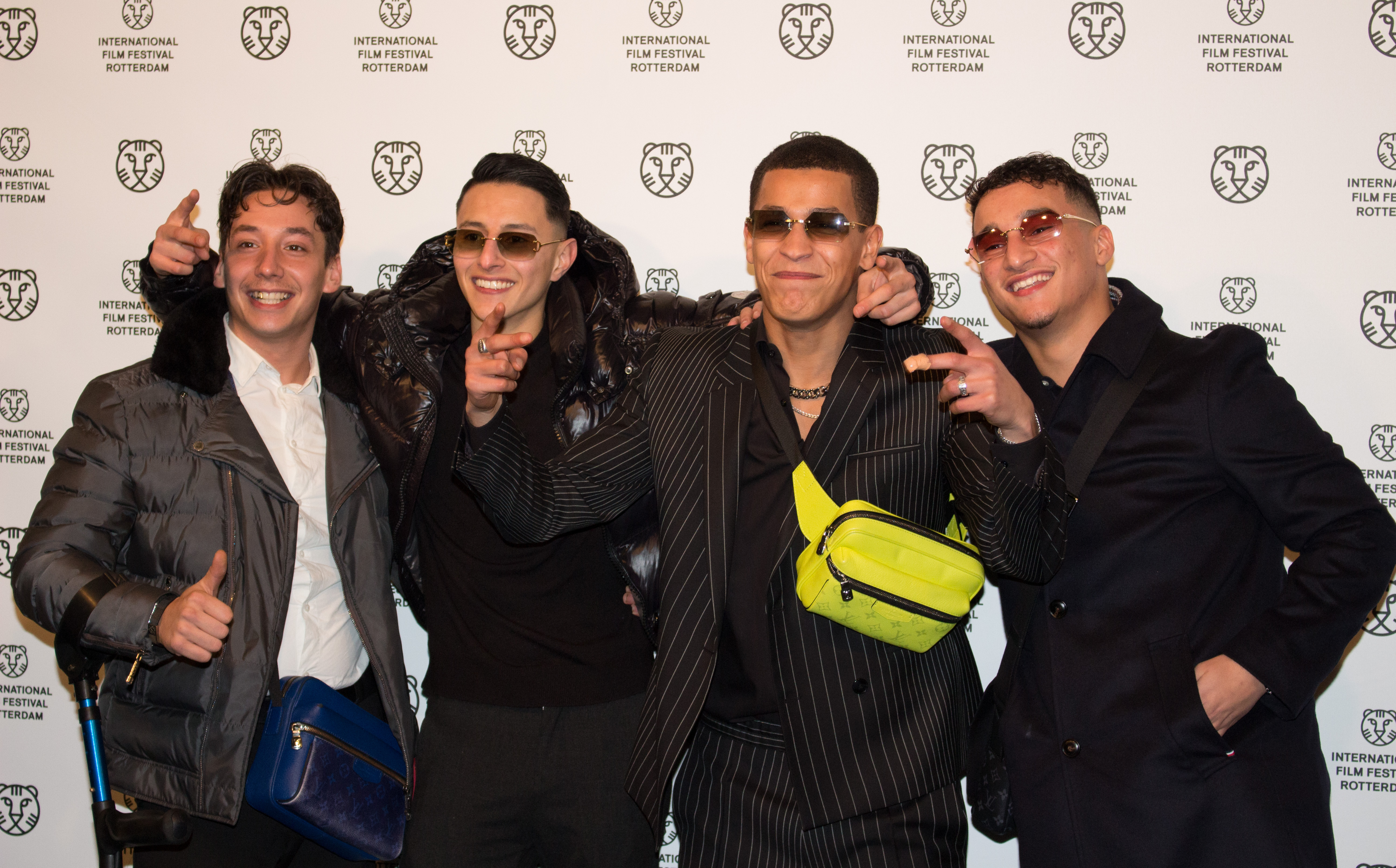 cast & crew of "Paradise Drifter" at the 49th International Film Festival Rotterdam